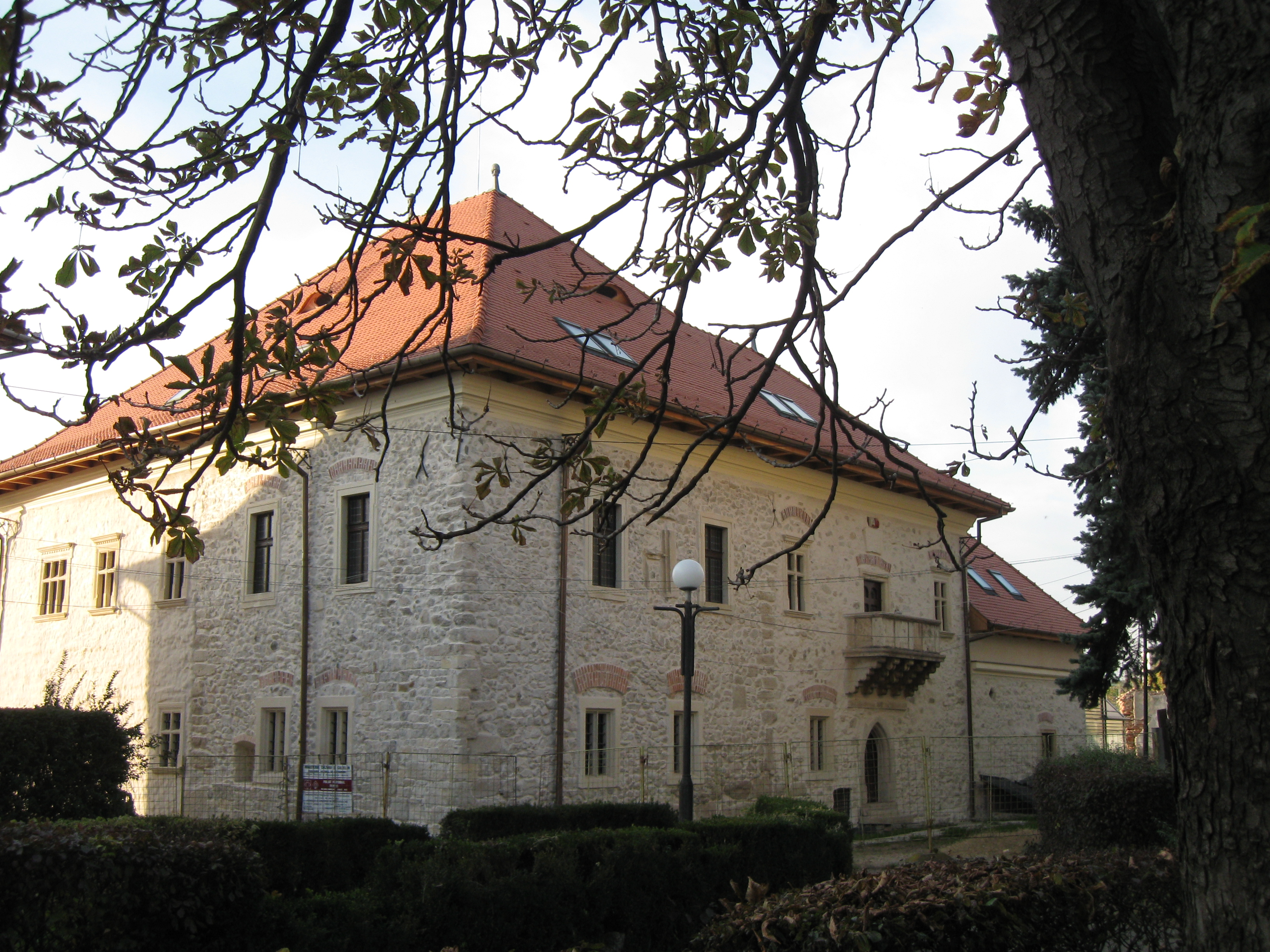 Prince's Palace of Turda, nowadays a history museum